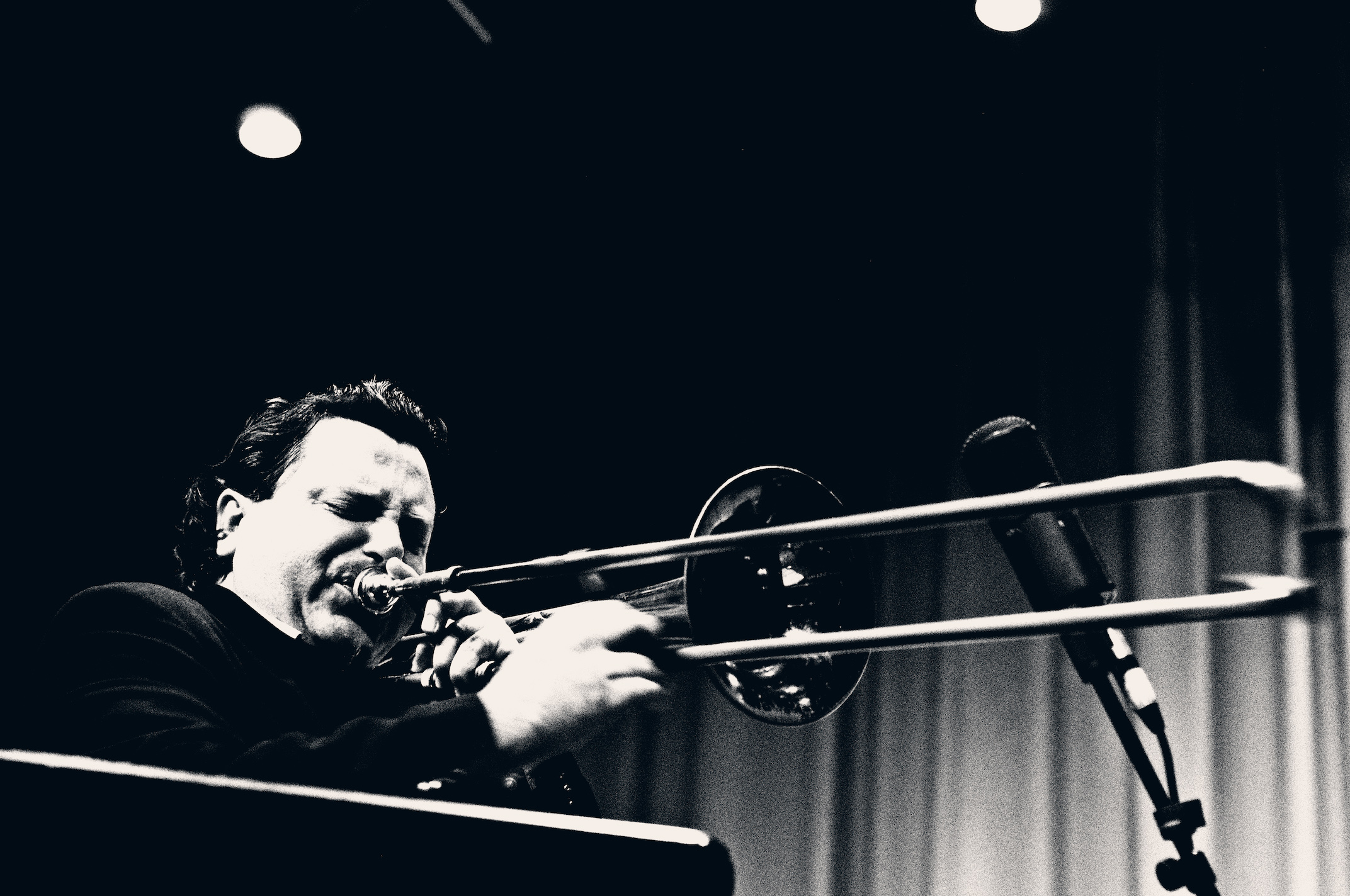 Adrian Mears in concert